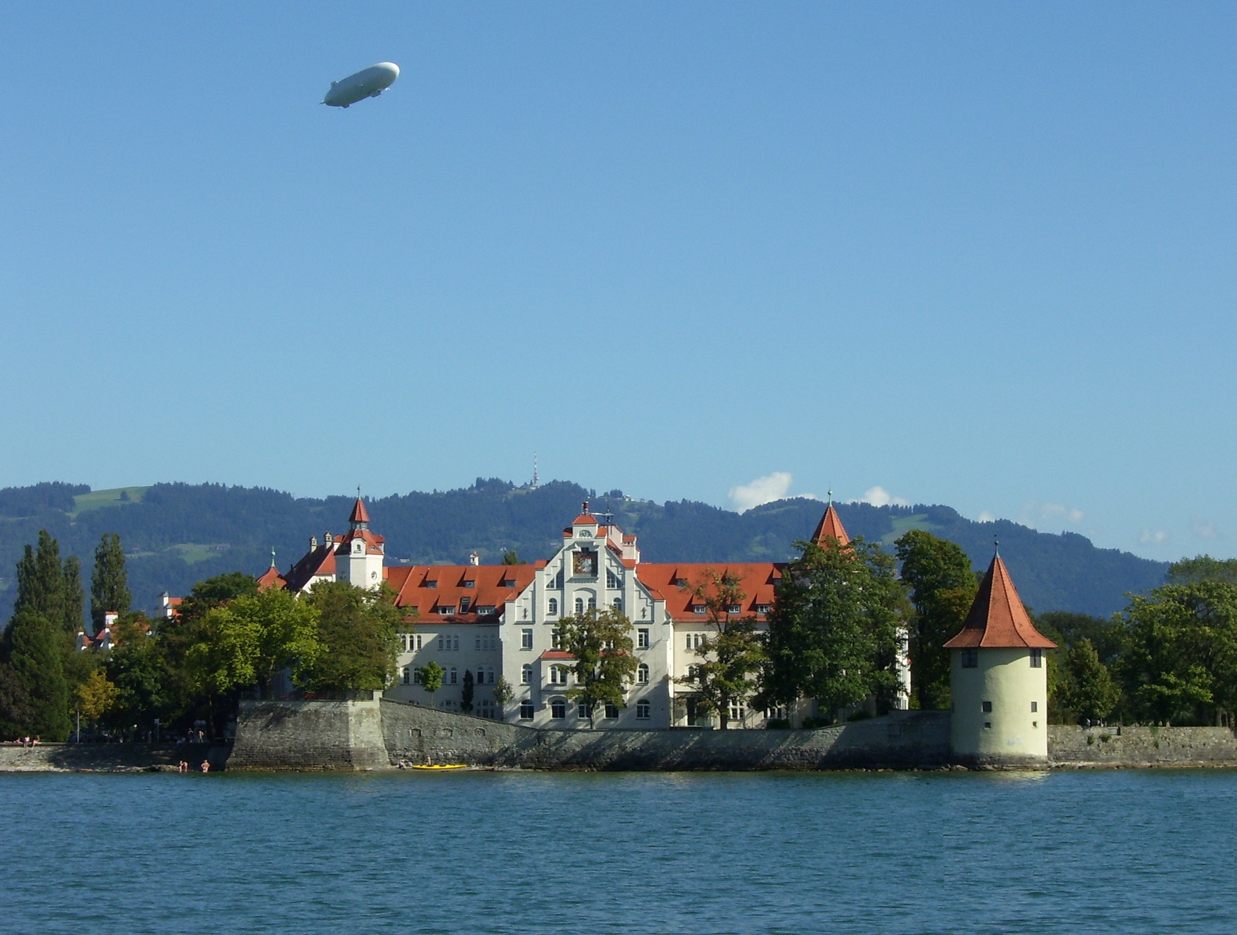 The Luitpoldkaserne in Lindau with the Pulverturm right hand side